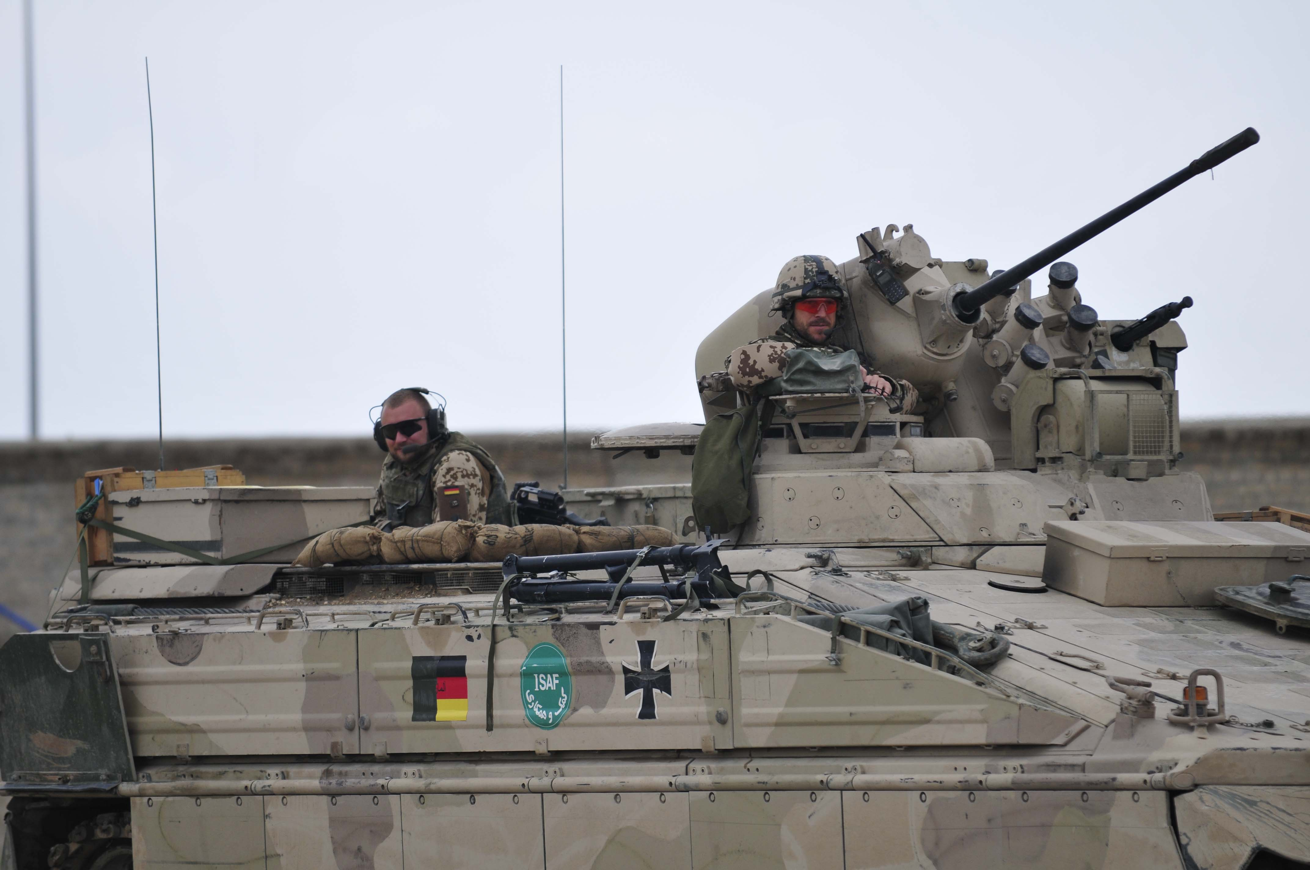 KUNDUZ, AFGHANISTAN - Two German tankers wait for their convoy of German Marders to depart on a patrol. (Photo by U.S. Navy Petty Officer 2nd Class Daniel Stevenson)